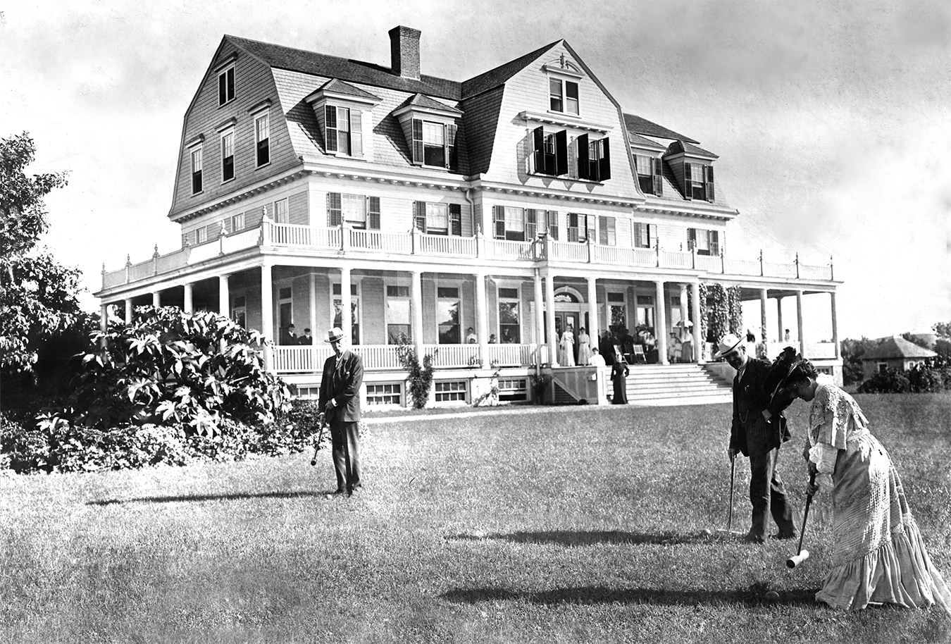 At its height, Newfoundland had over forty hotels and boarding houses that catered to the tourists that flocked to the area for its magnificent scenery and healthful climate. Of all the hotels that once graced the region, only one, the resort hotel know as Idylease remains standing as proof of a once thriving tourism industry. Opened on New Year’s Day in 1903, Idylease thrived during the Ragtime Era.